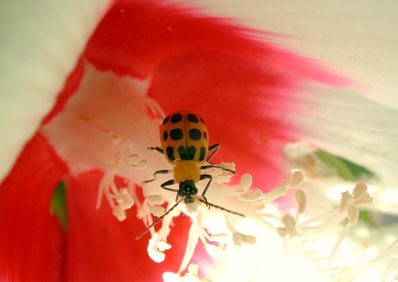 Chesapeake Bay, leaf beetle, Chrysomelidae, Diabrotica undecimpunctata, Spotted Cucumber Beetle or Southern Corn Rootworm, Sandy Point, Maryland, USA